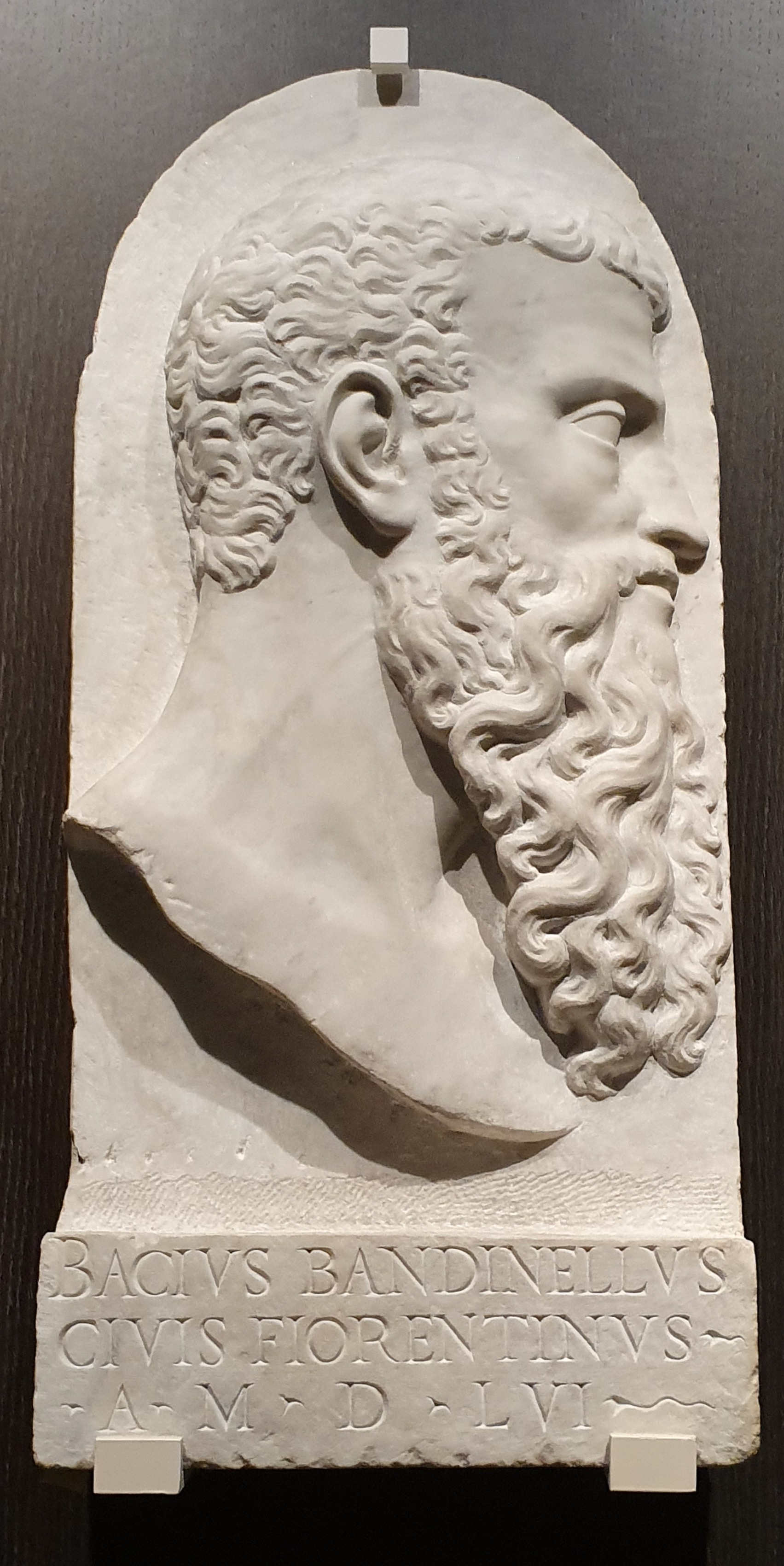 Self-portraits by Baccio Bandinelli at Museo dell'Opera del Duomo (Florence)